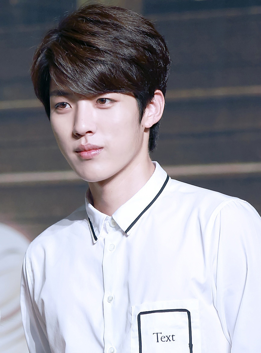 Lee Sung-yeol at press conference High School - Love On on July 7, 2014.